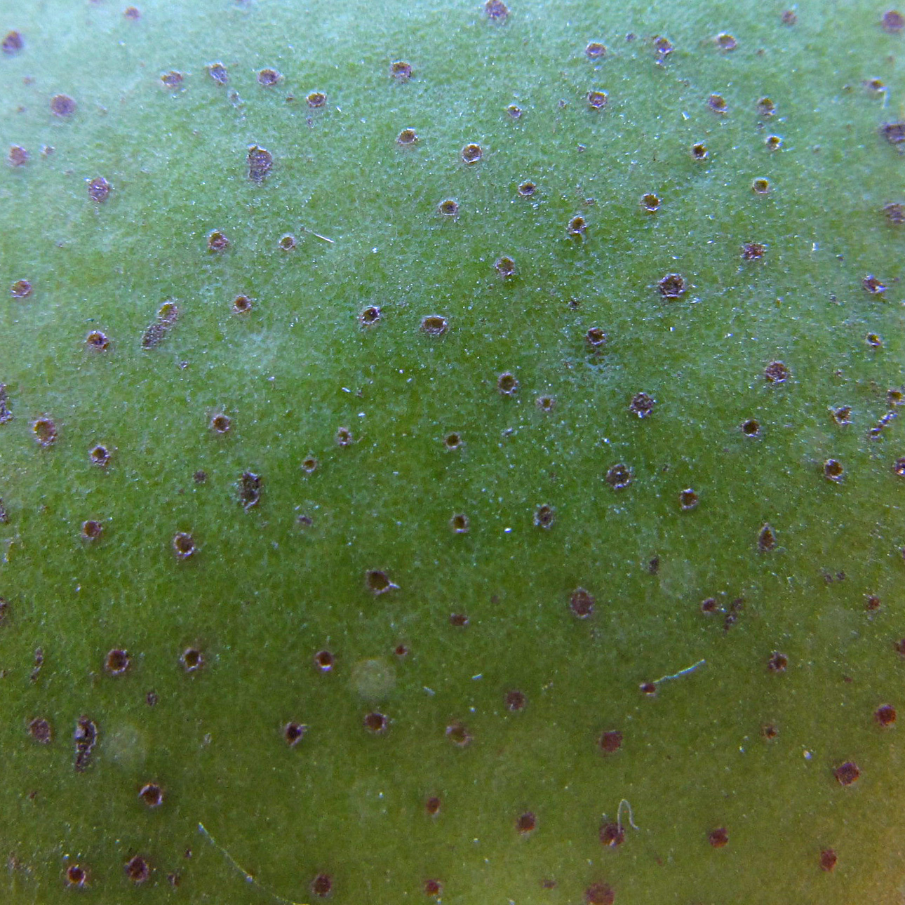 Lenticels on pear fruit epidermis.